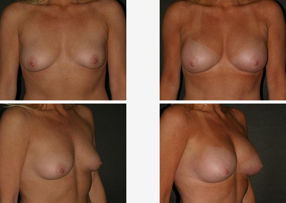 Plastic surgery; fat-graft breast augmentation; 4 plates